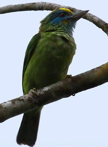 A Yellow-fronted Barbet at Sinharaja Forest Reserve, Sri Lanka.